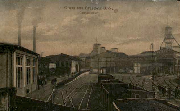 Orzegów, Gotthard coal mine, Stolberg pit (right), German postcard.